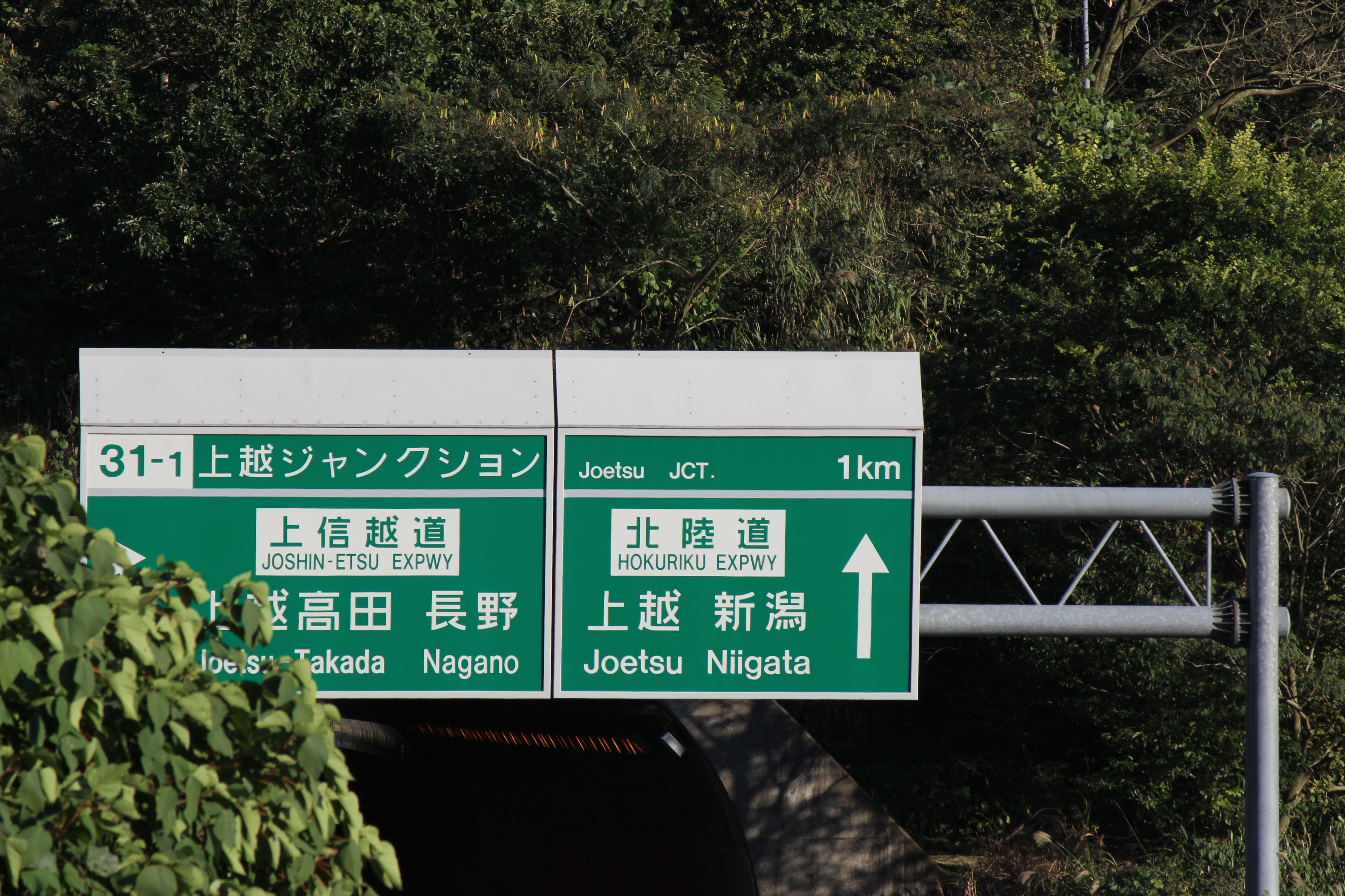 Road sign at Joetsu Junction